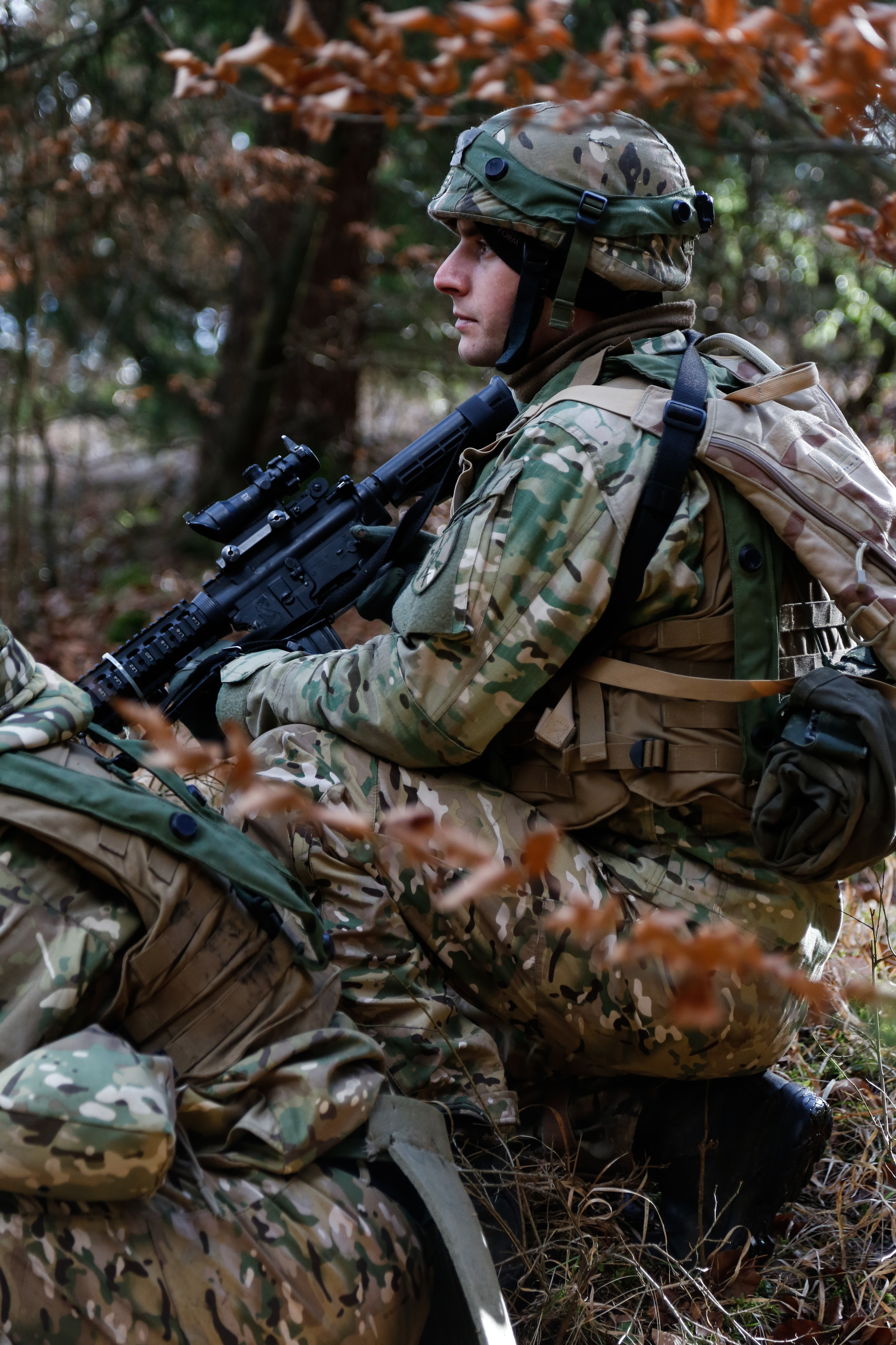 A Georgian soldier with Scouts Platoon, Delta Company, Special Mountain Battalion conducts reconnaissance operations Feb. 14, 2014, during Georgian Mission Rehearsal Exercise (MRE) 14-02B at the Joint Multinational Readiness Center in Hohenfels, Germany. A Georgian MRE is a combined training exercise in which U.S. and Georgian soldiers practice counterinsurgency, stability and transportation operations in preparation for a deployment to Afghanistan in support of NATO.